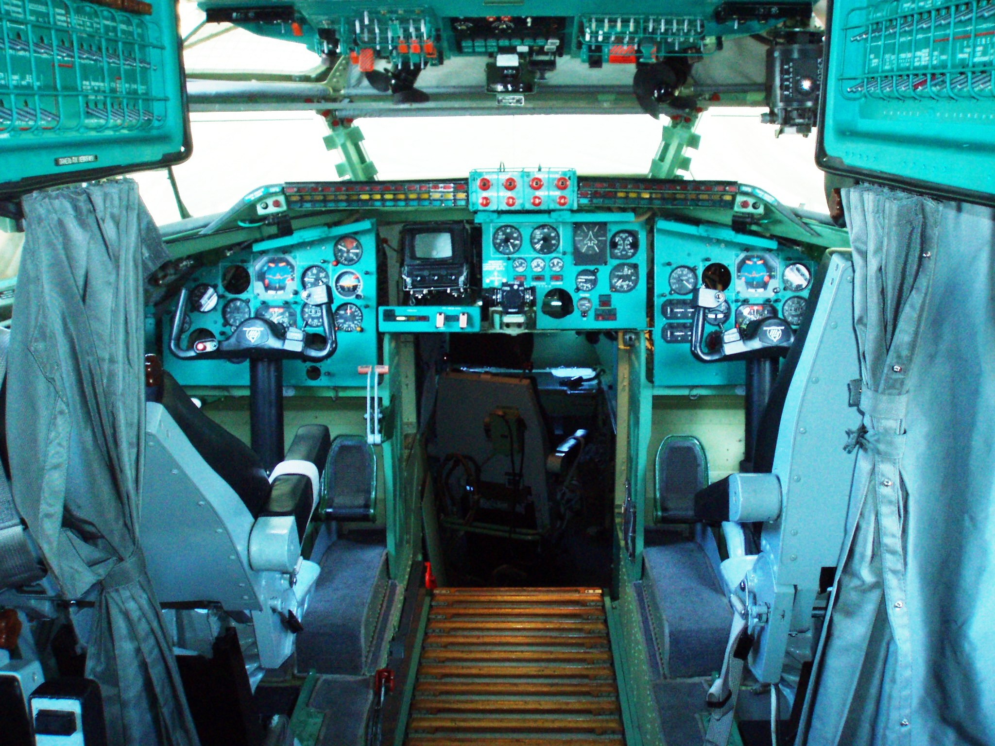 Кабина Ту-142МР